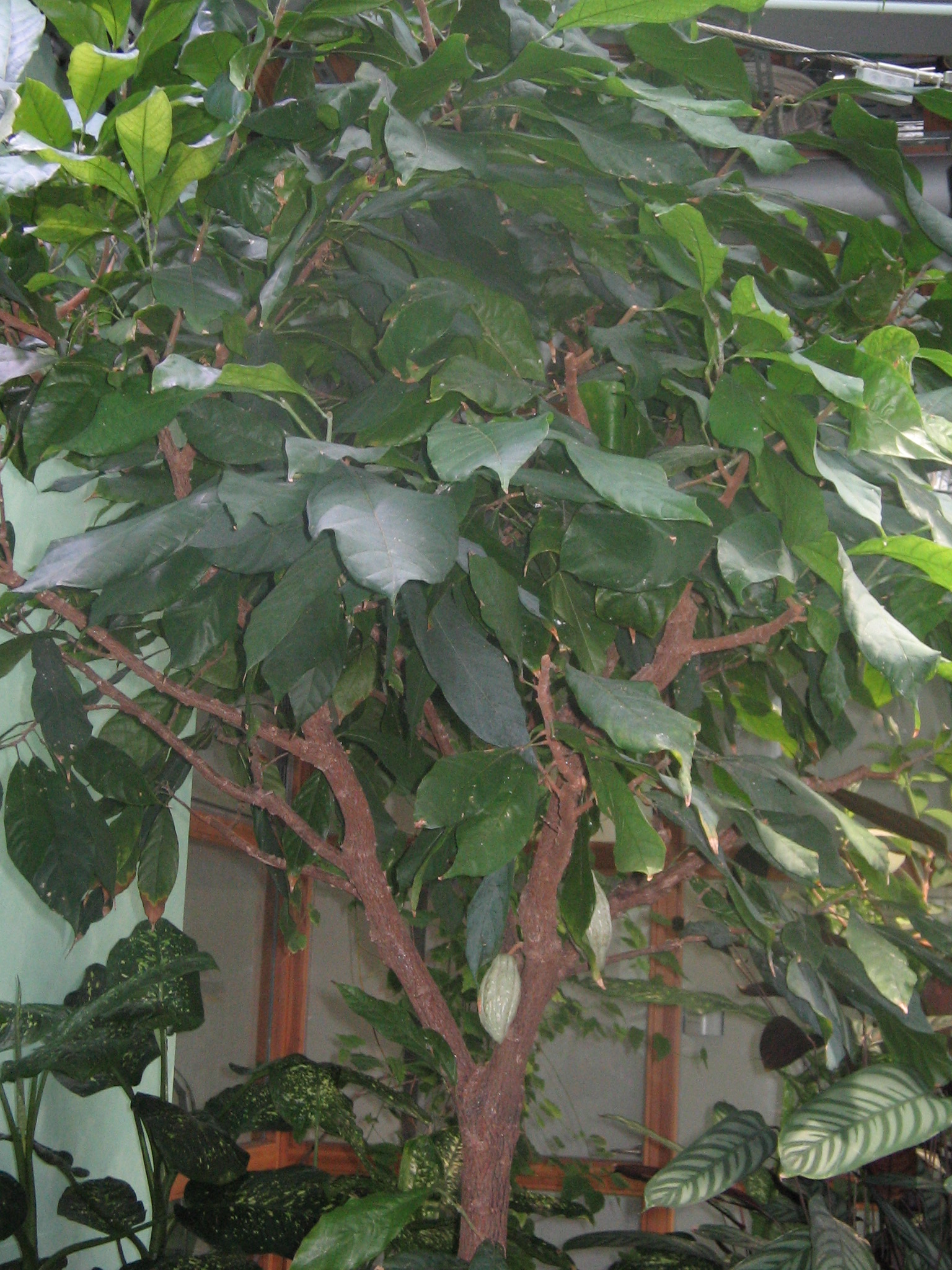 A cacao tree.